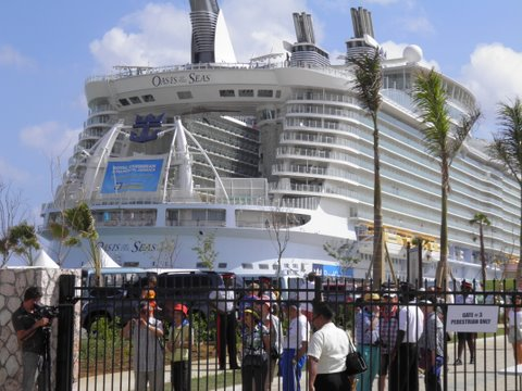 Oasis of the Seas at Falmouth port in Jamaica